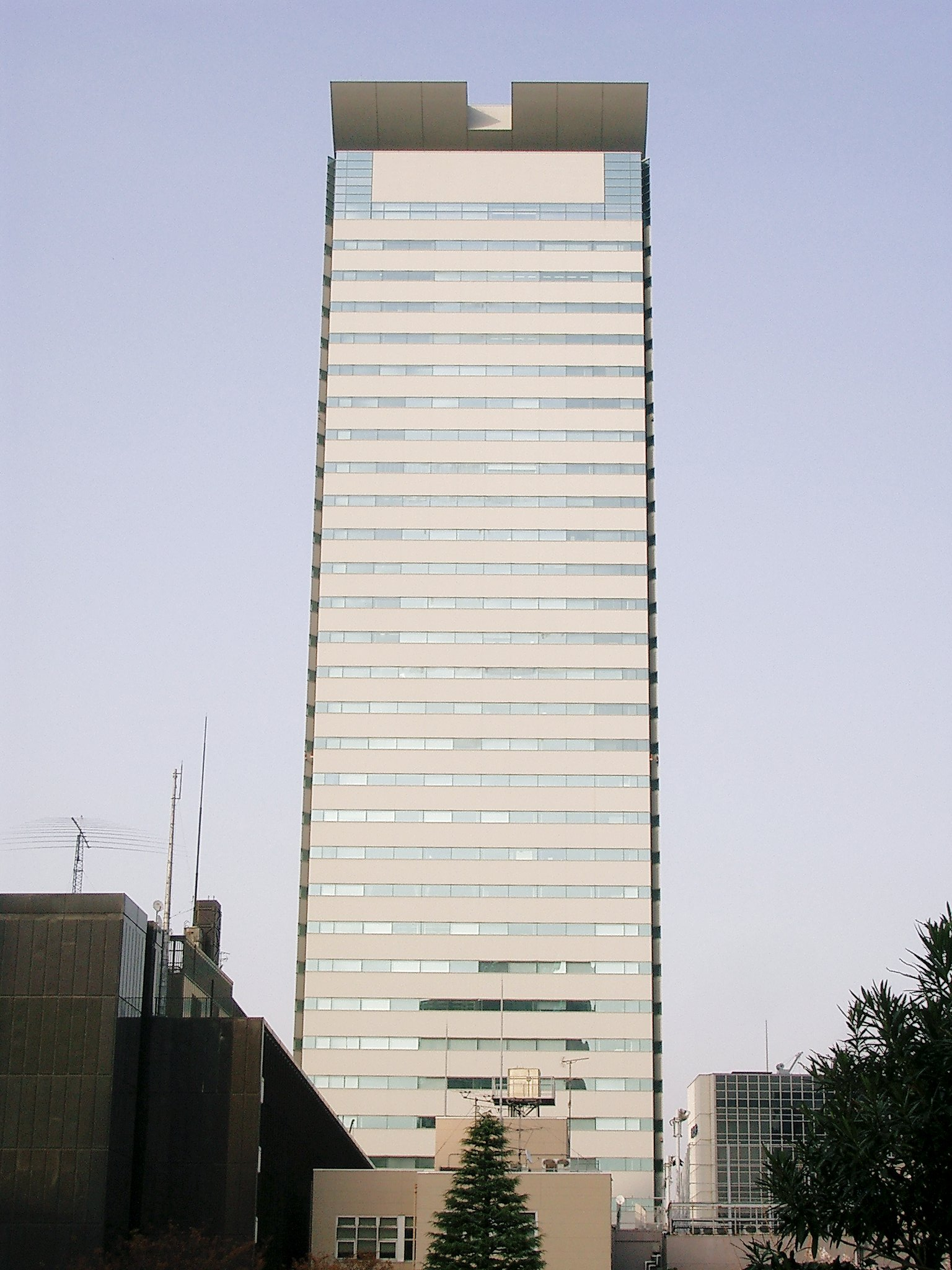 JT Building, the main office of Japan Tobacco (日本タバコ産業)